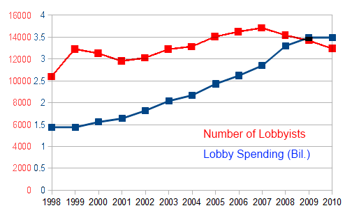 Graph I created with info obtained from